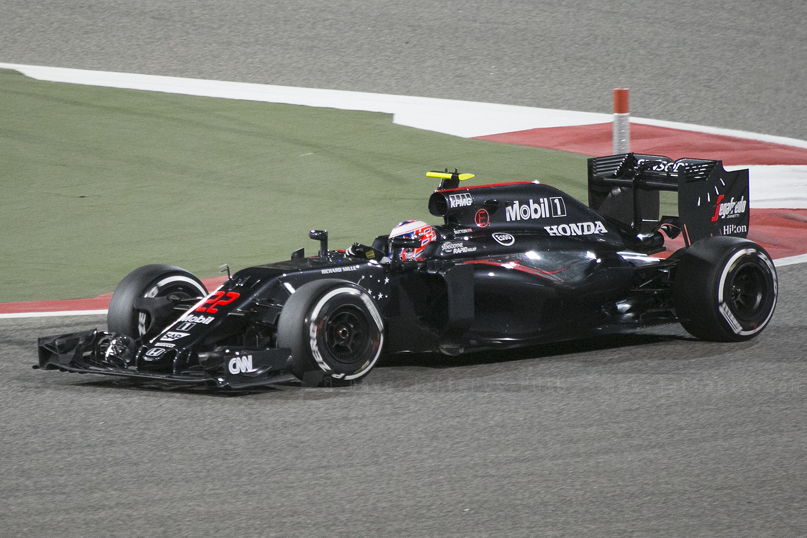 Jenson Button at the 2016 Bahrain Grand Prix